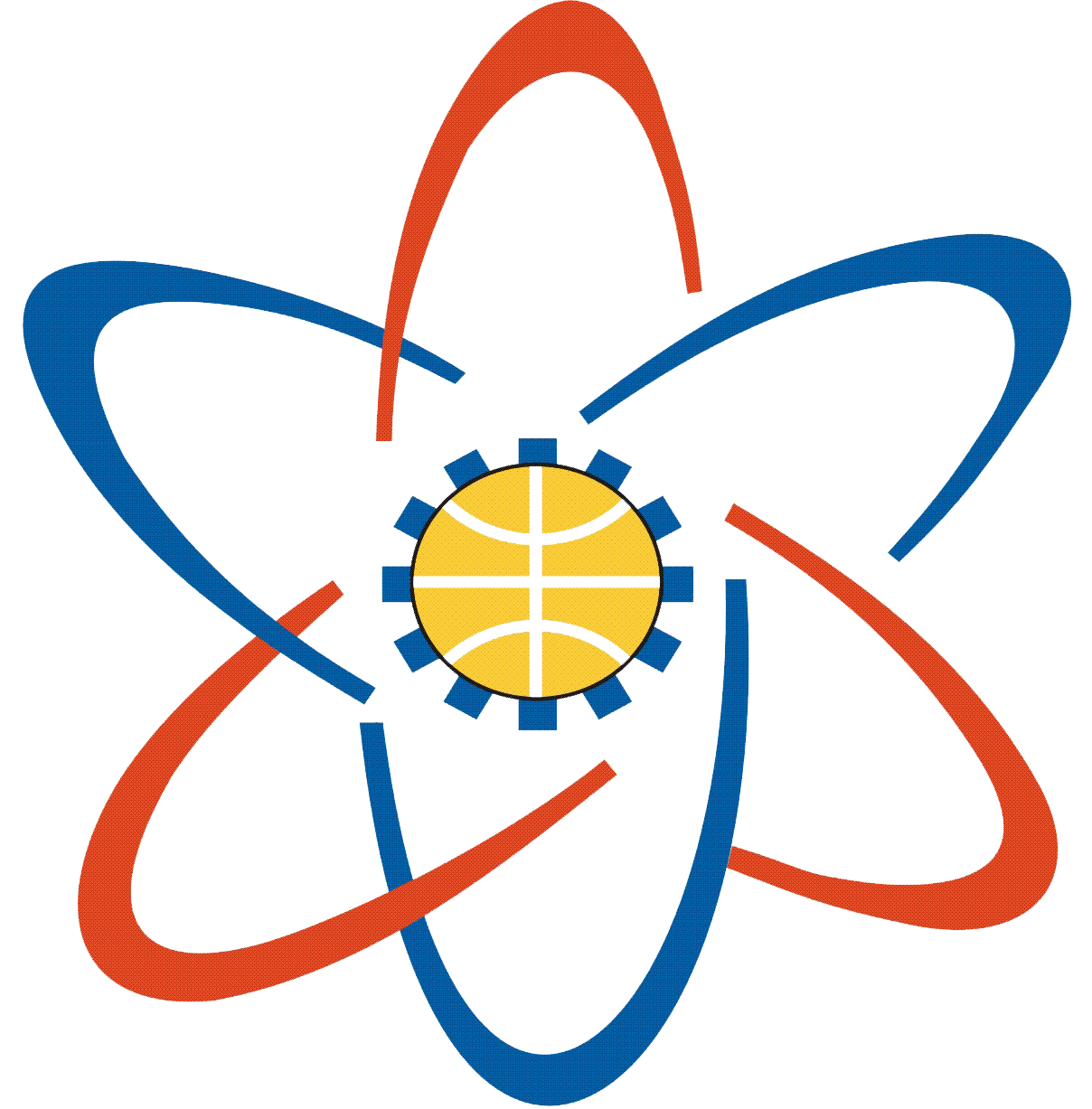 BMIT Logo, Seal of BMIT